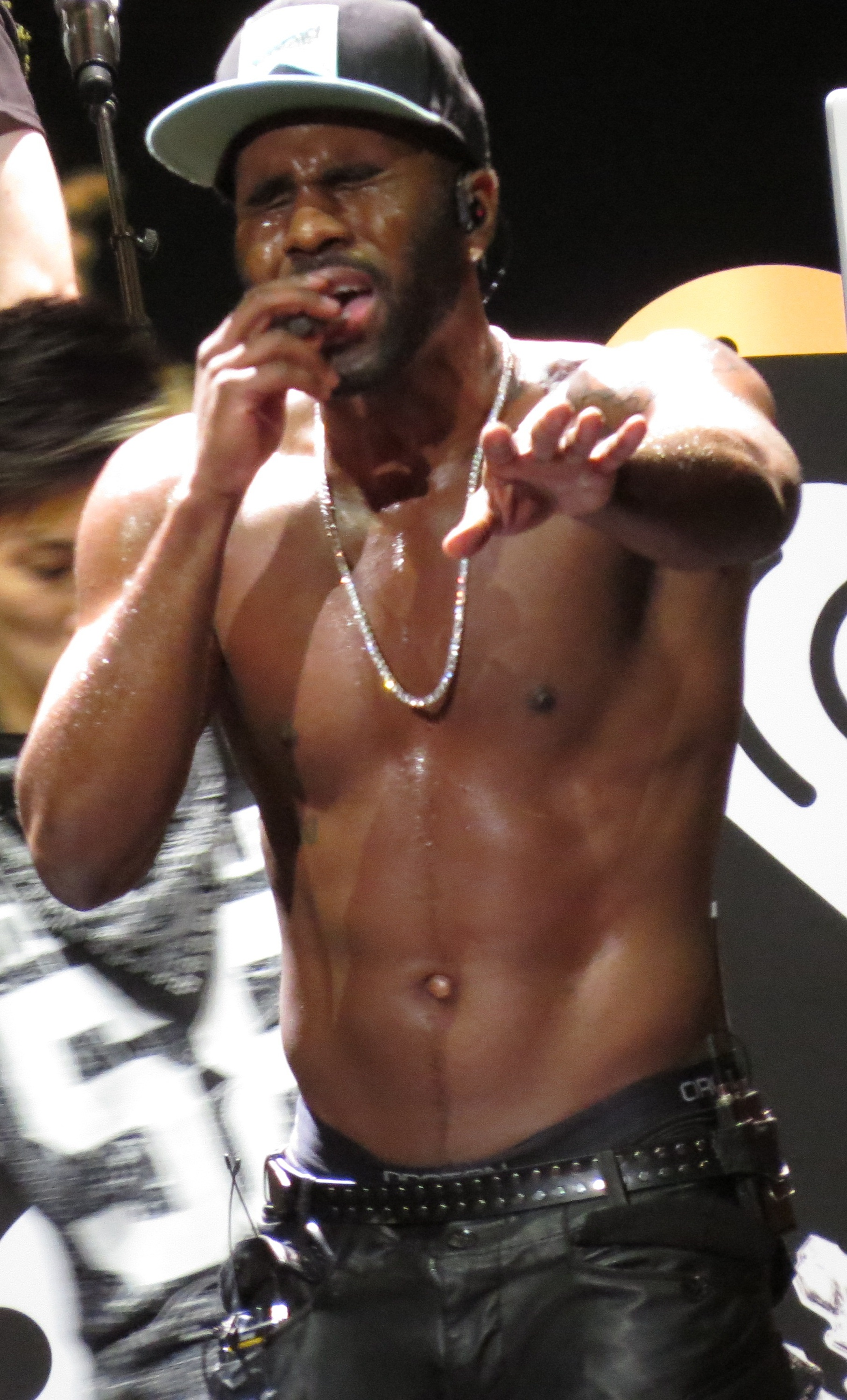 Jason Derulo in 2013